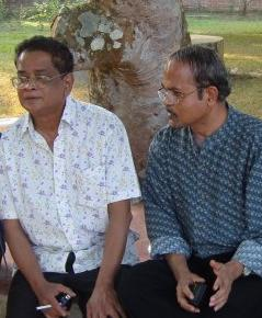 Authors Humayun Ahmed and Saleh Uddin at Nuhashpalli